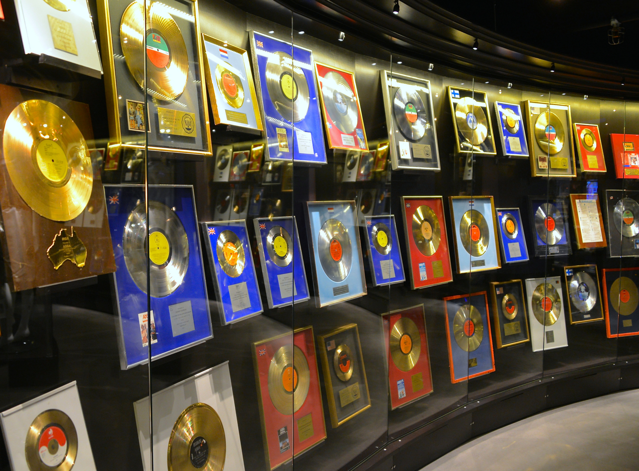 ABBA: The Museum May 6, 2013.